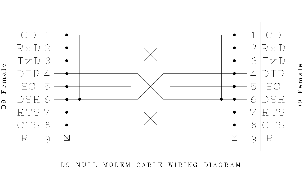 Wiring diagram for D9 to D9 Null-Modem adaptor